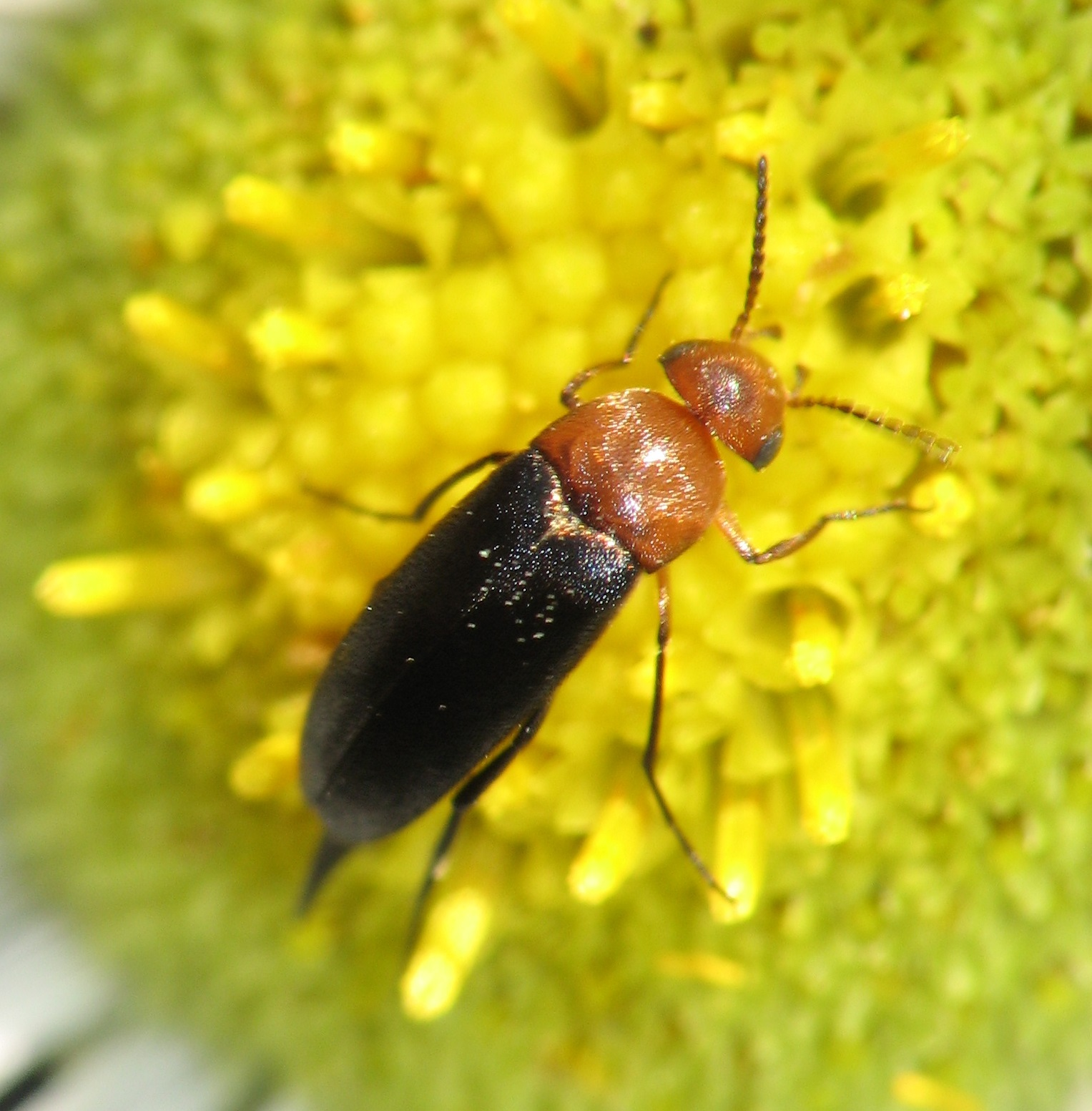 Tumbling flower beetle, Mordellistena cervicalis. Horsham Trail, Montgomery County, Pennsylvania, USA.